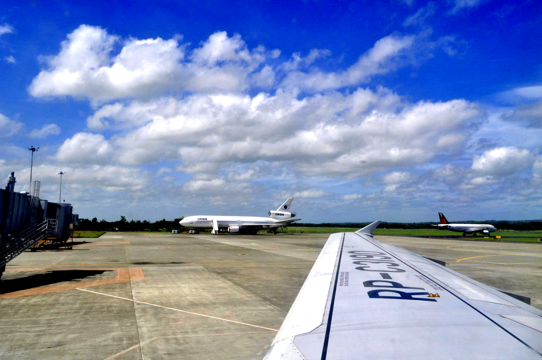 Orbis MD 10, Cebu Pacific Airbus 320 and Philippine Airlines Airbus 320 at Iloilo Airport tarmac